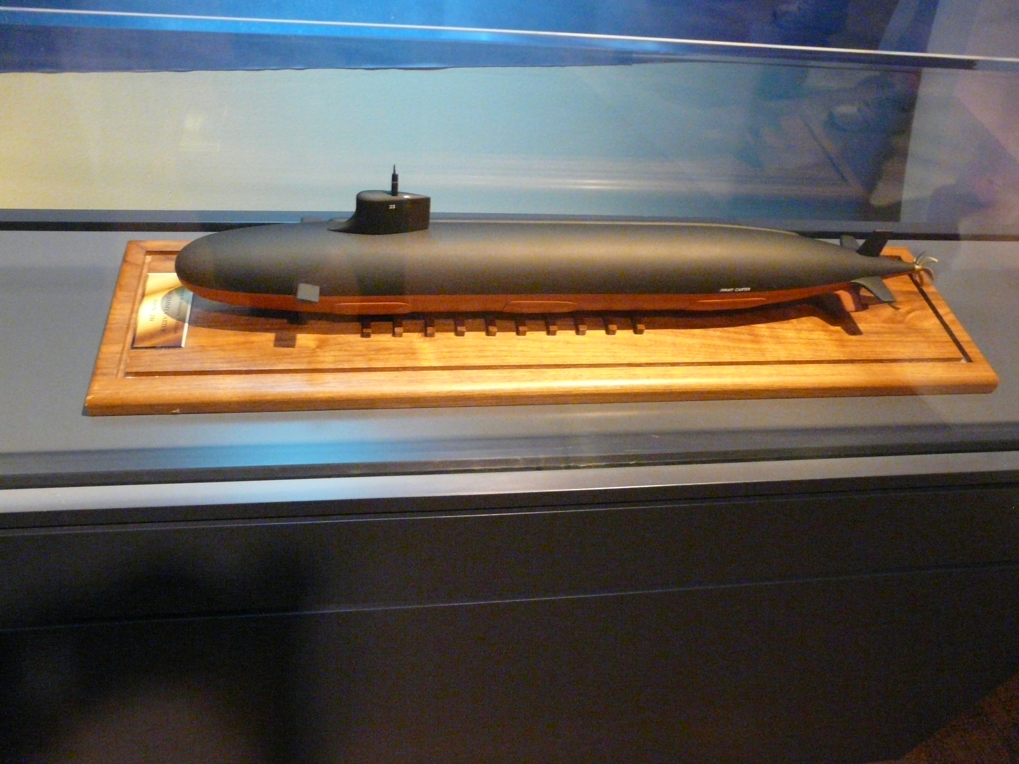 Jimmy Carter Library and Museum